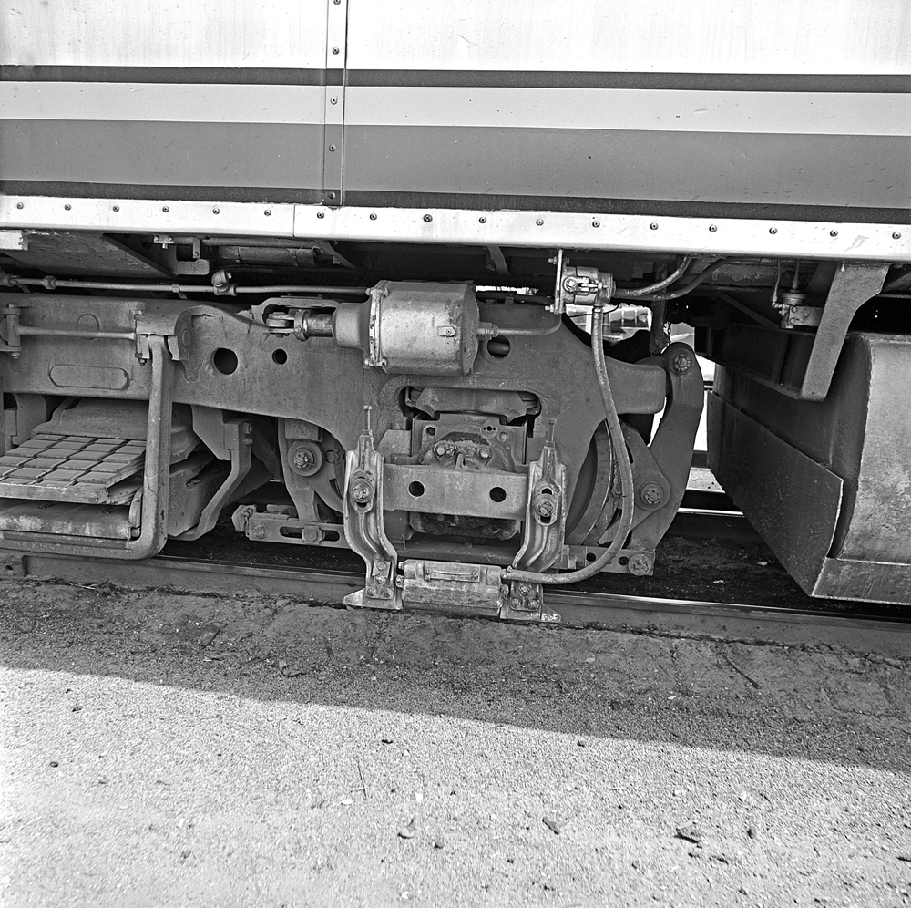 Title: [Atchison, Topeka, & Santa Fe, Diesel Electric Passenger Locomotive No. 24, Automatic Train Control] Creator: DeGolyer, Everett L. (Everett Lee), 1923-1977 Date: September 1968 Part of: L. DeGolyer Jr. collection of United States railroad photographs/ Physical Description: 1 negative: film, black and white; 6.3 x 6.5 cm Railway Line: Topeka, and Santa Fe Railway Company/field/railwb/ File: ag1982_0232_atsf_00024_neg03250b_sm_opt.jpg Rights: Please cite DeGolyer Library, Southern Methodist University when using this file. A high-resolution version of this file may be obtained for a fee. For details see the web page. For other information, . For more information and to view in high resolution, View